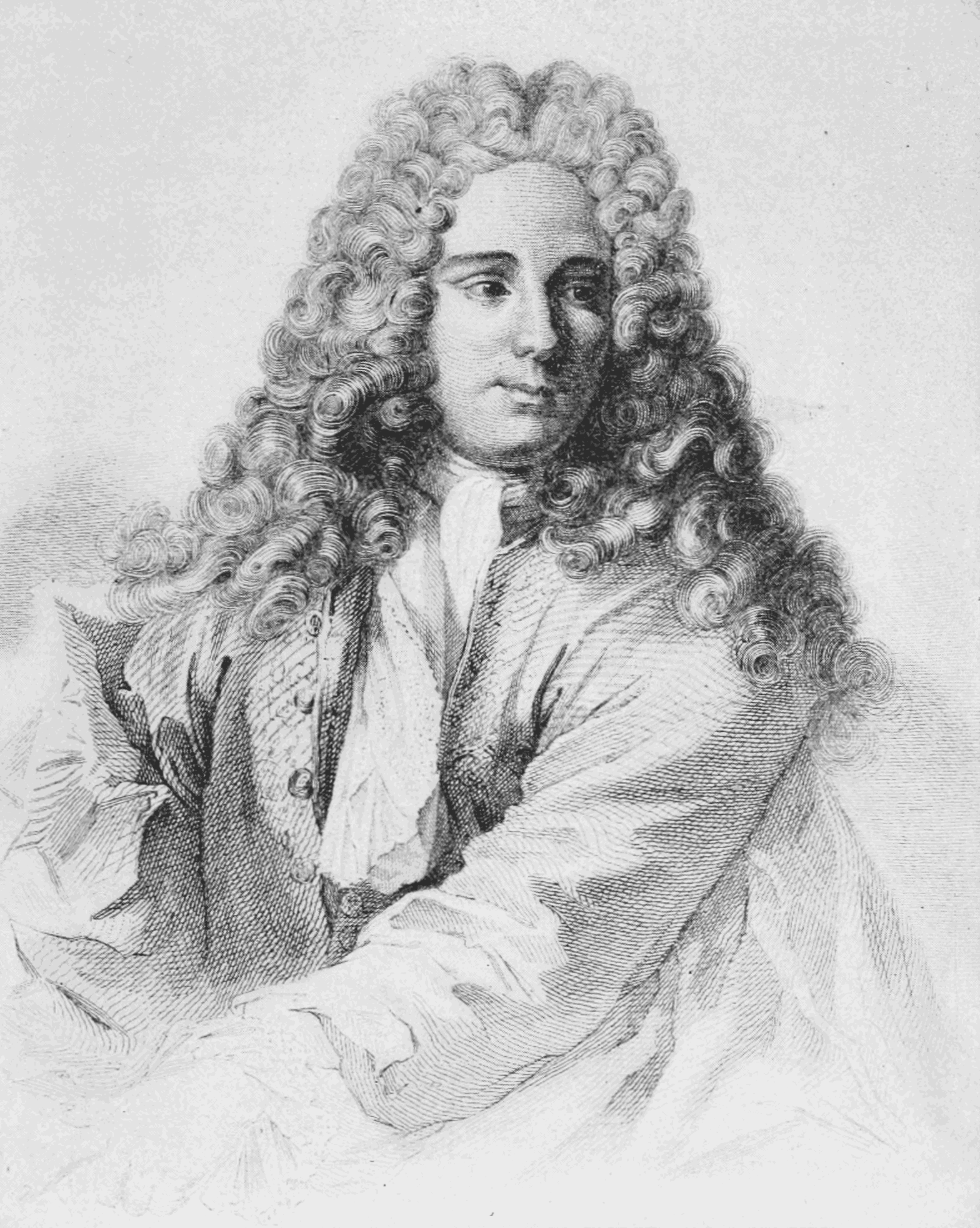 Pierre Louis Moreau de Maupertuis